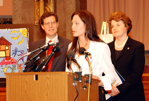 At a news conference U.S. Senators Diane Feinstein (D-Calif.) and Sam Brownback (R-KS) joined with Angelina Jolie, the Goodwill Ambassador for United Nations High Commissioner for Refugees, to call on the Senate to approve bipartisan legislation to reform the treatment of unaccompanied alien minors, including refugee children, who are in federal immigration custody.